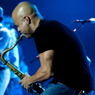 Carlos Sosa of Grooveline Horns playing his saxophone